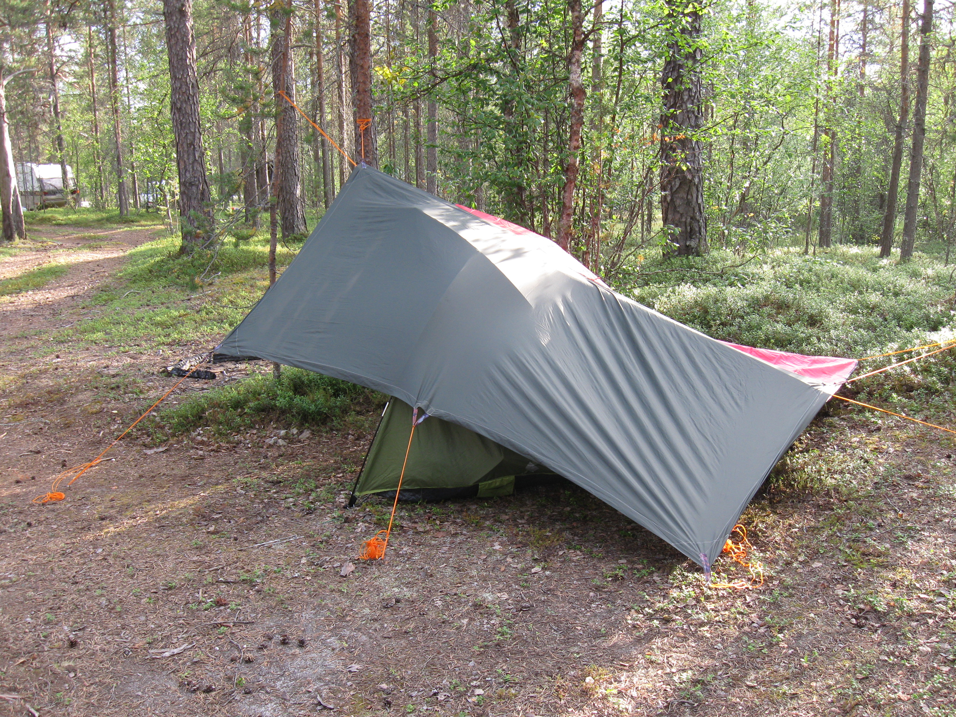 A self-made hiking tarpaulin meant as a temporary shelter, here covering a light tent to prevent rain and direct sunshine.